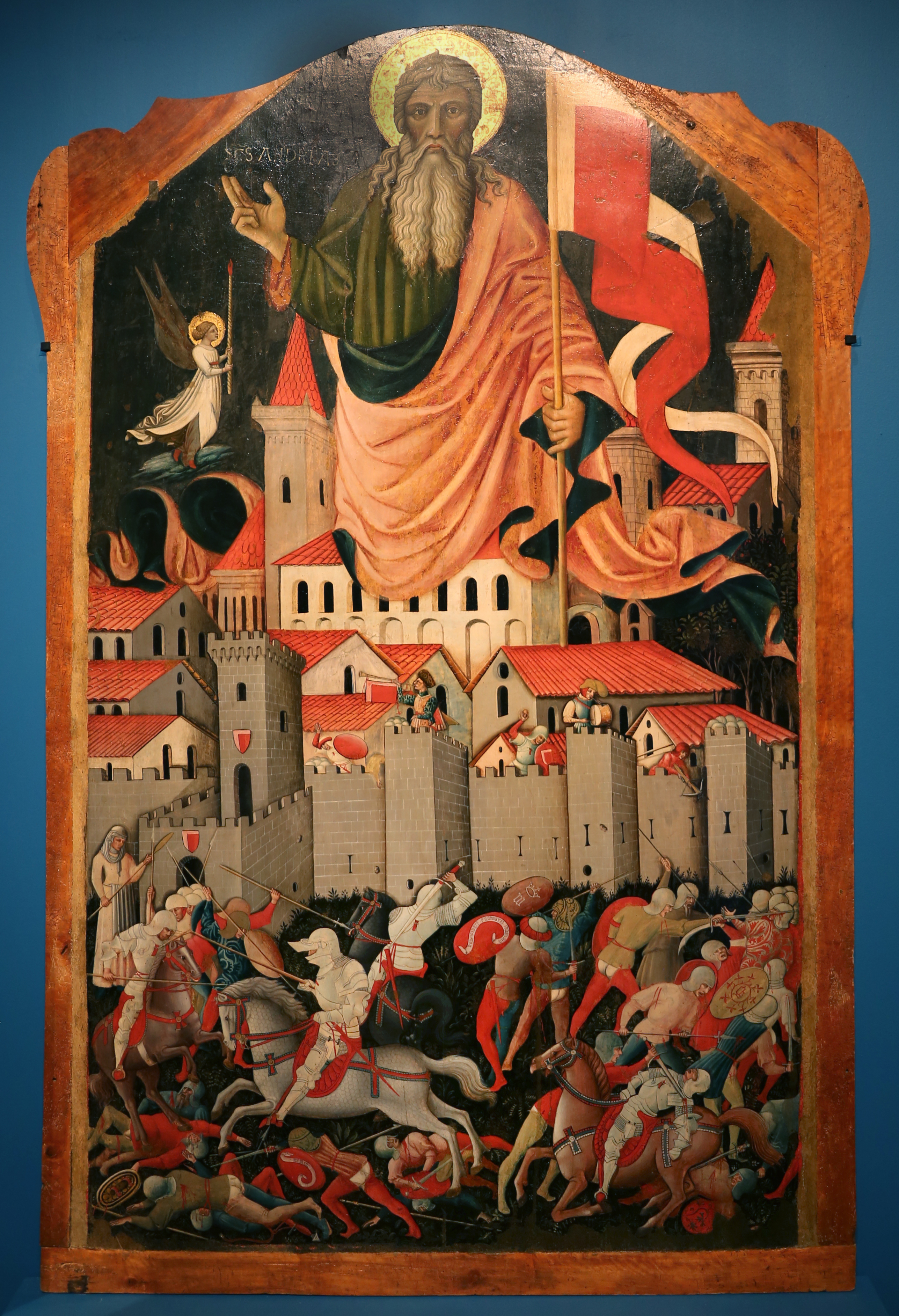 Pala di Sant'Andrea by Nicola di Ulisse